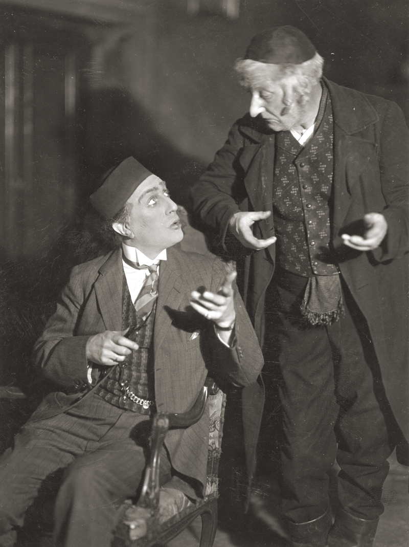 Gösta Ekman and Tore Svennberg in Patrasket by Hjalmar Bergman